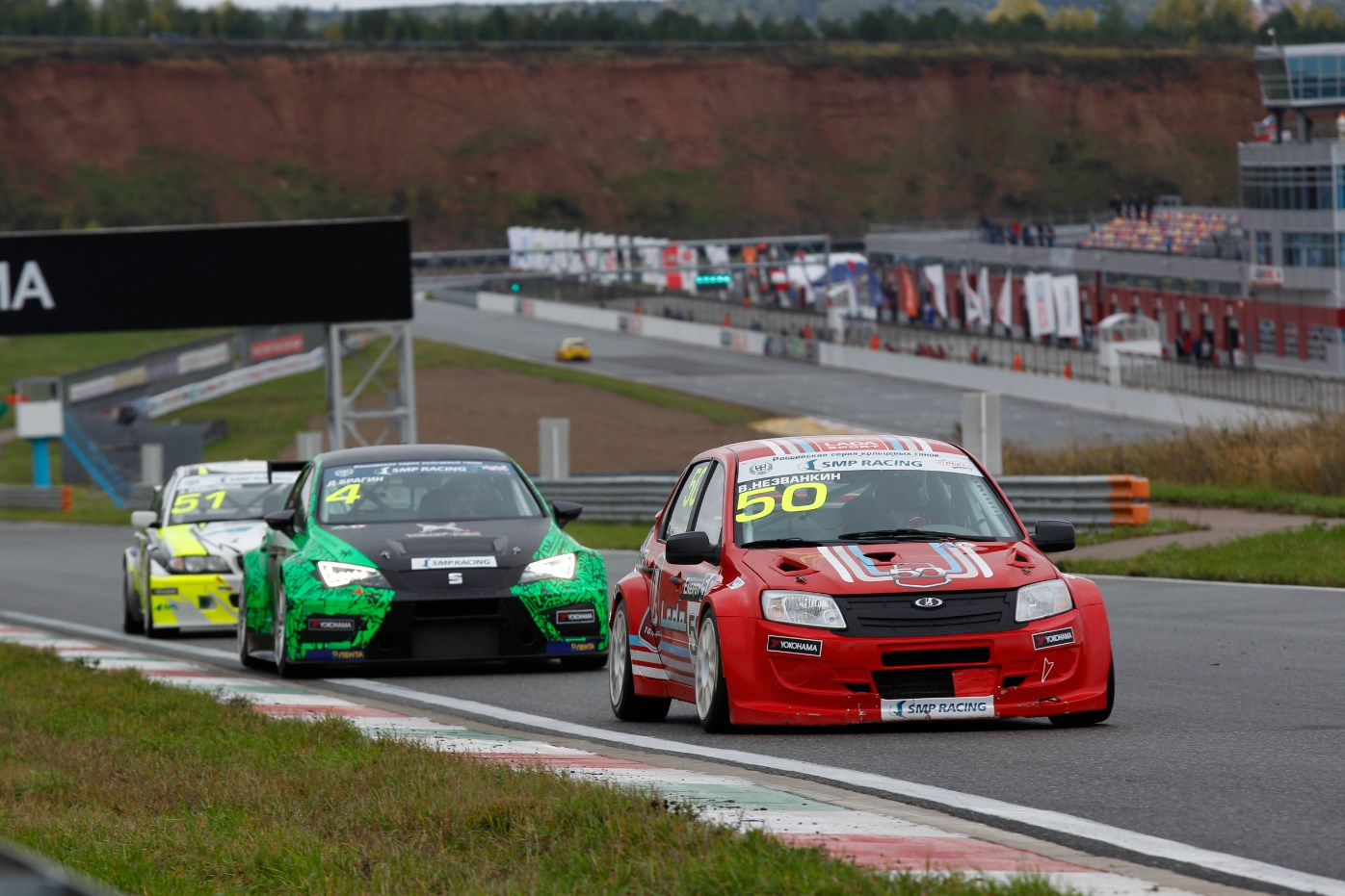 Nezvankin, Bragin, Lada Granta Sport, Kazan, RCRS 2016